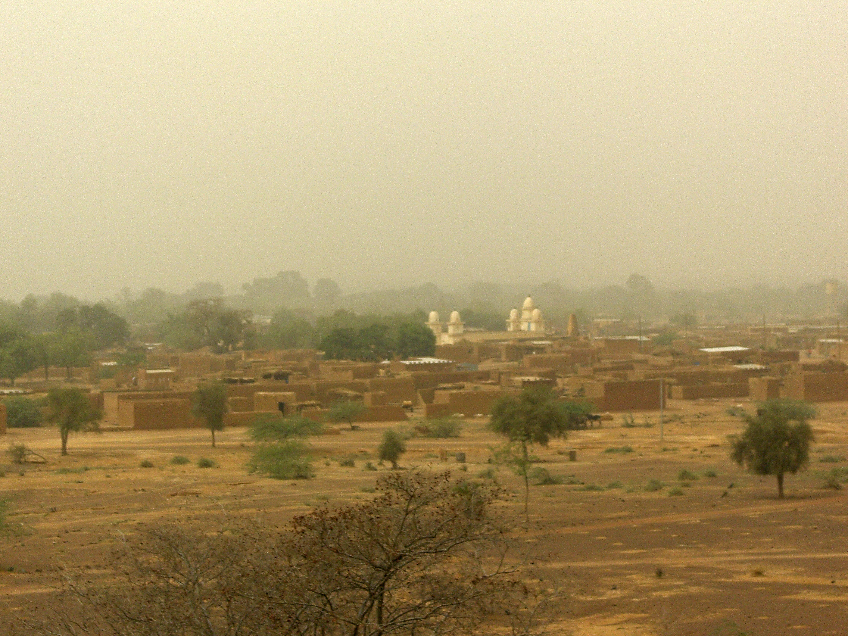 The city of Titao, in Loroum Province, Nord Region, Burkina Faso, Western Africa.